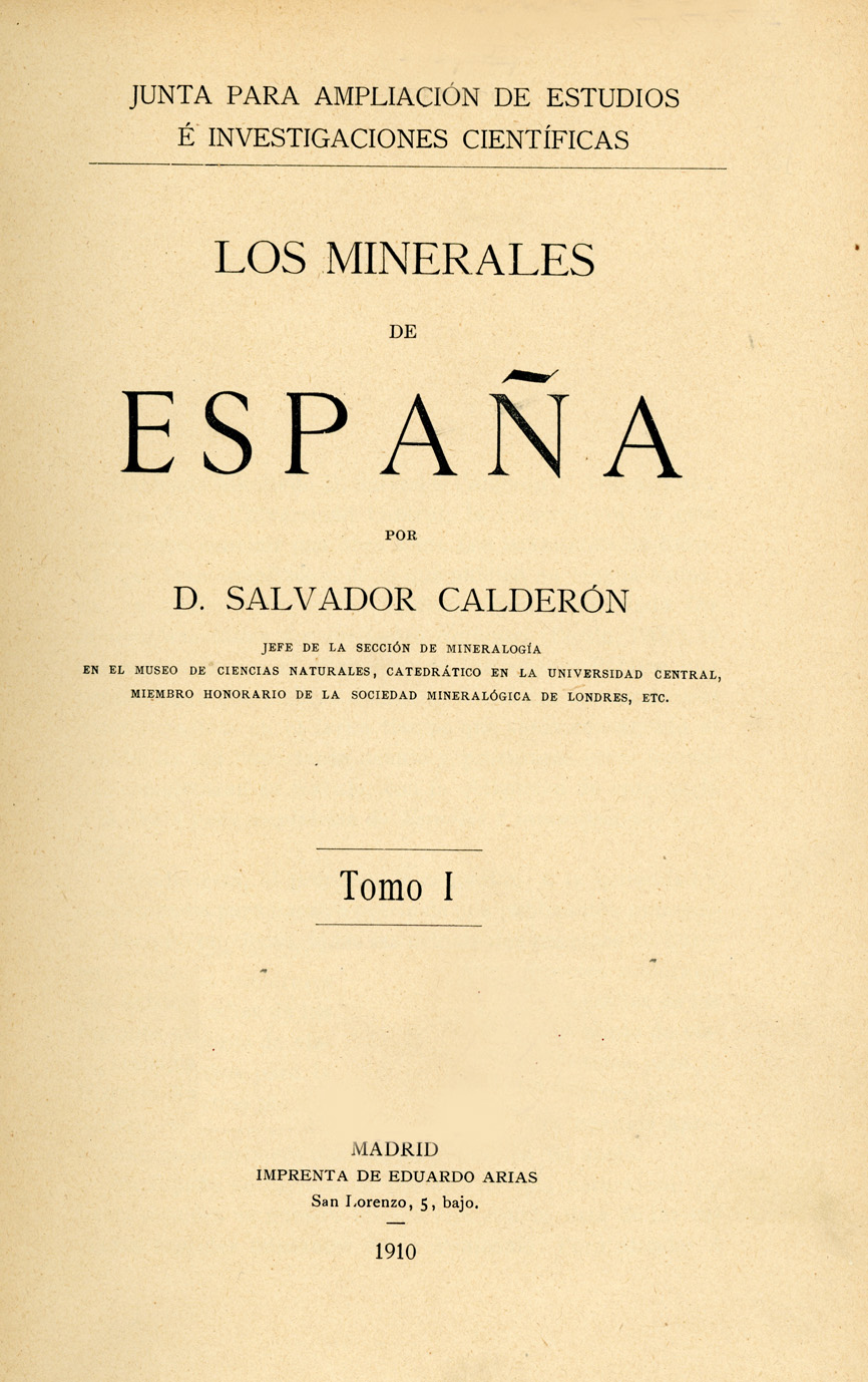 Cover of the book Los Minerales de España, from Salvador Calderón, published by Junta de Ampliación de Estudios in 1910